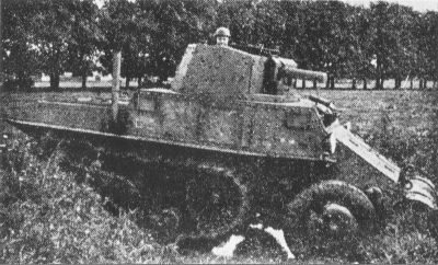 French prototype heavy semi-tracked armoured car Somua AM 1938 during the tests.